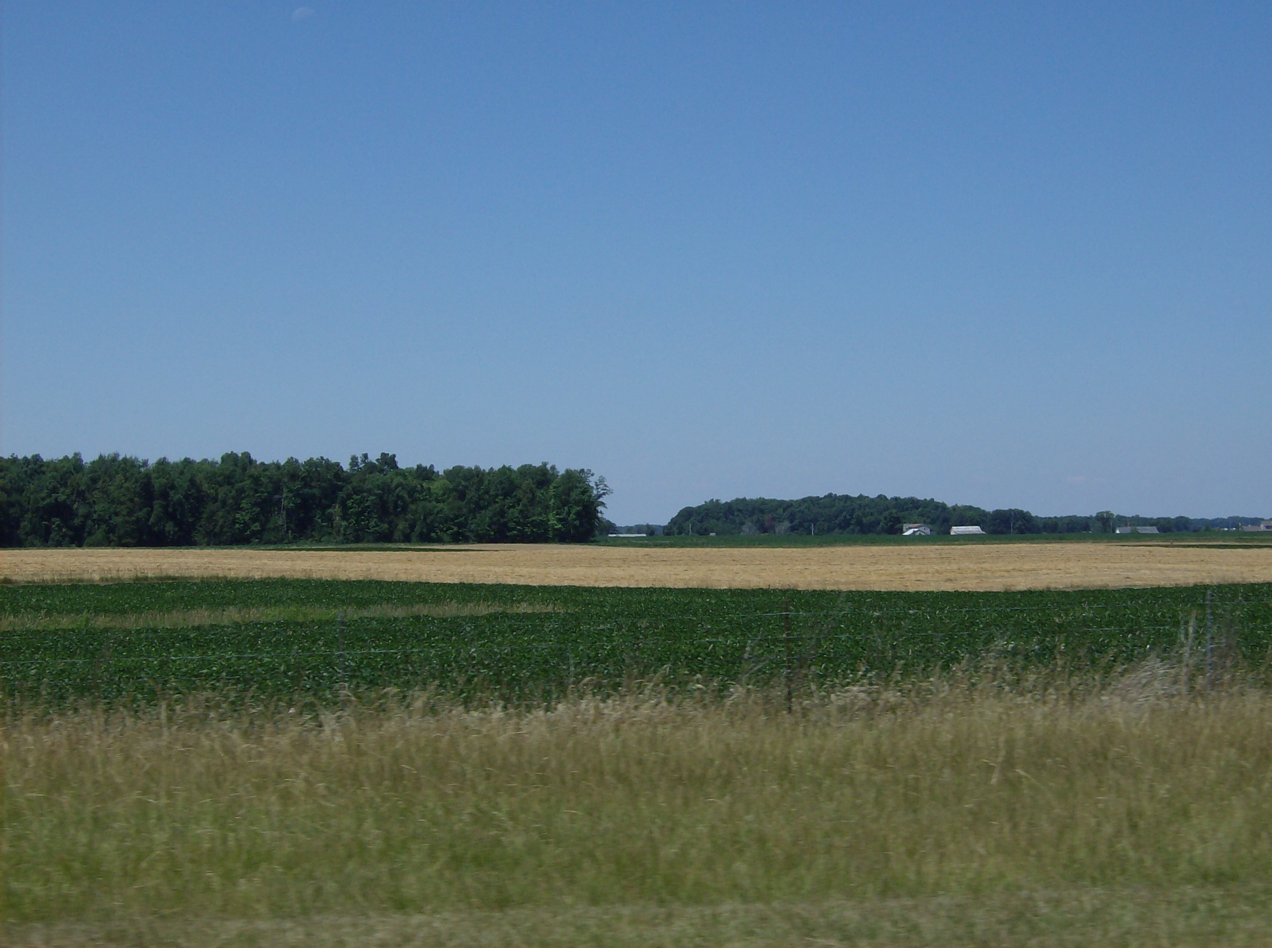 View of woods and fields in southern Pusheta Township, Auglaize County, Ohio, United States. Picture taken looking westward from Interstate 75.